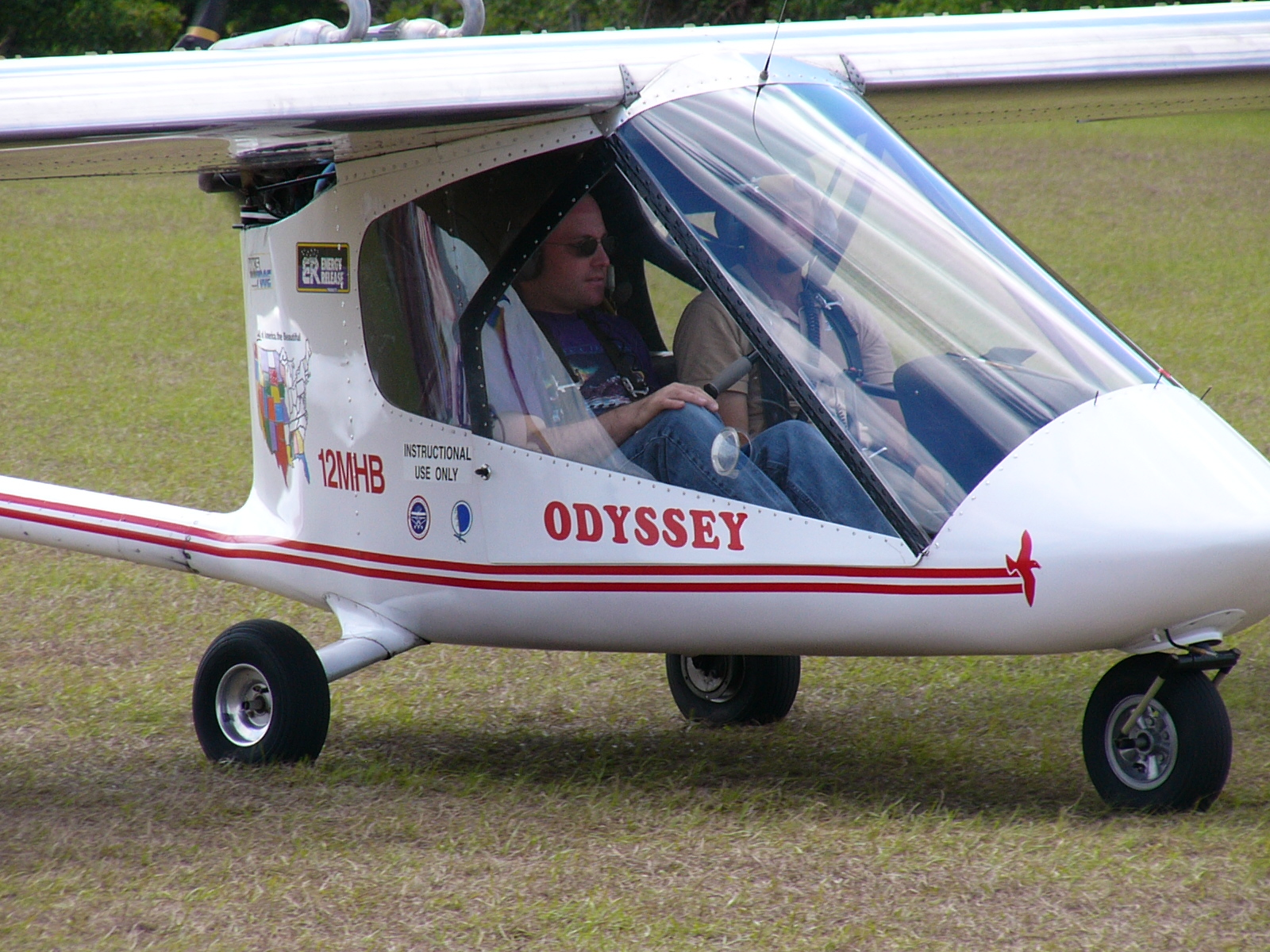 An Earthstar Thunder Gull Odyssey at Sun 'Fun 2004